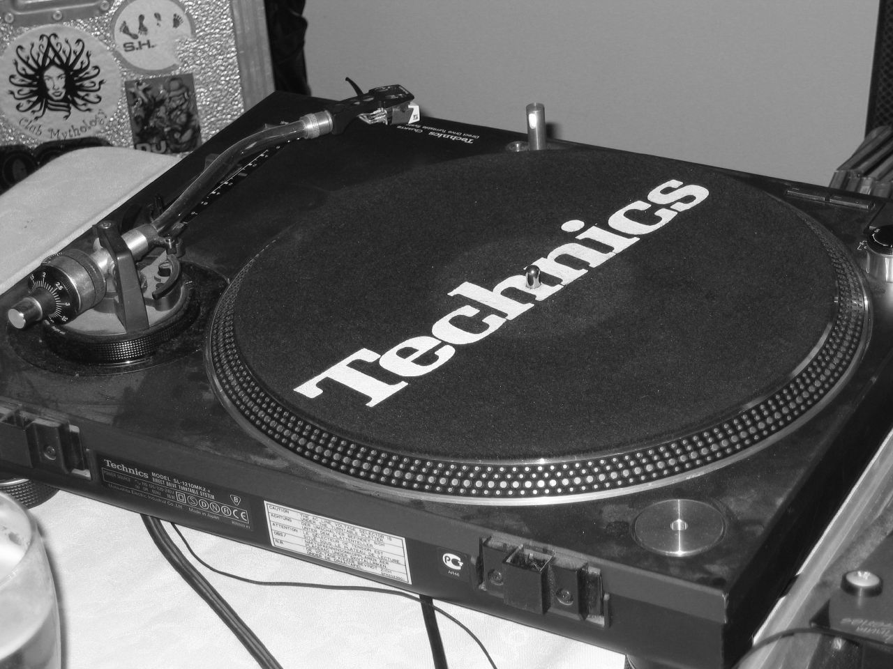 Technics SL-1210Mk2